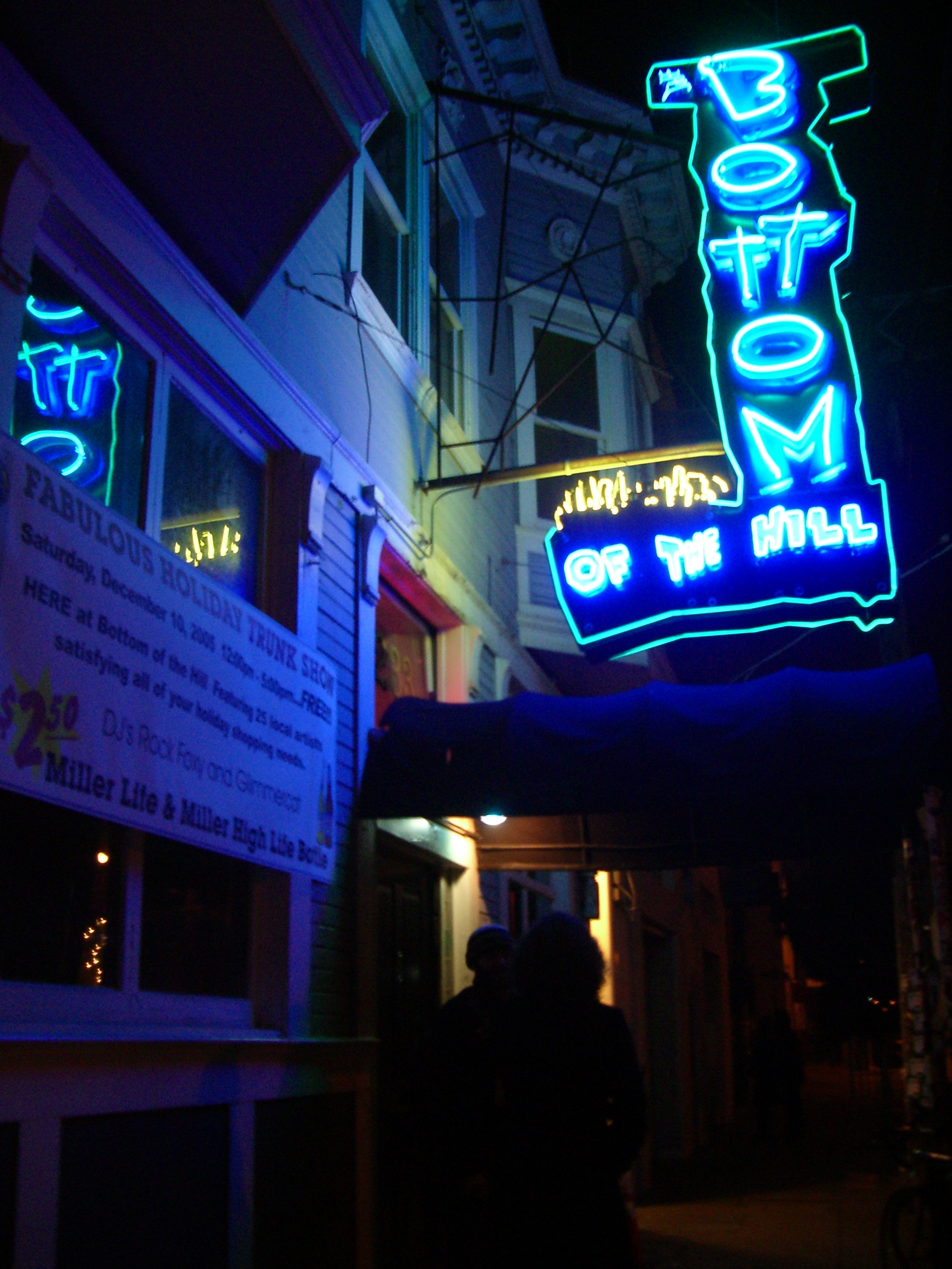 After the show